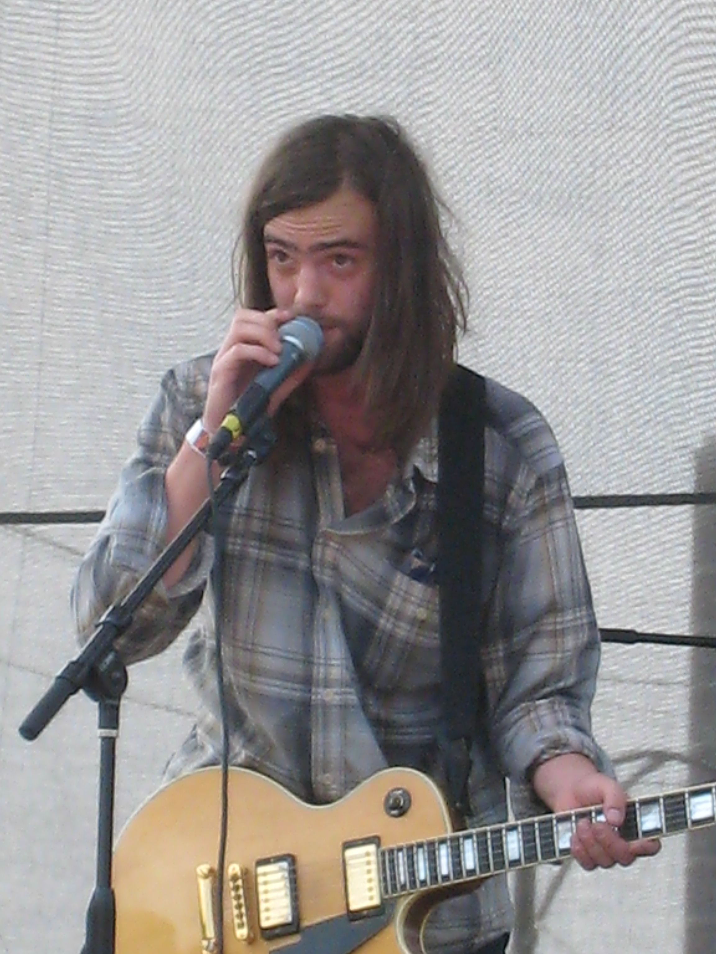 David Vandervelde playing at the 2007 Lollapalooza Festival Tour (Day 3)